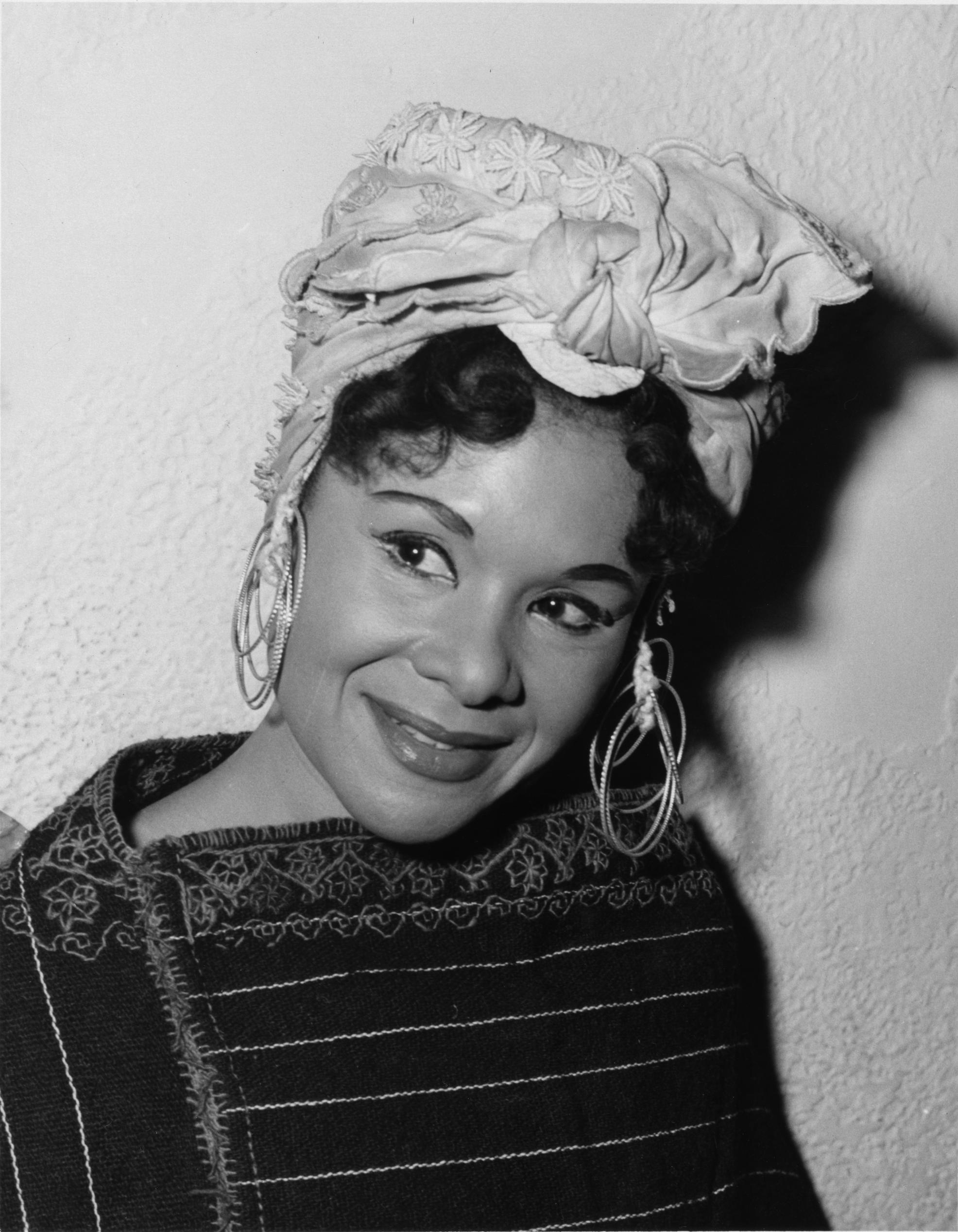 Katherine Dunham, American dancer, choreographer, songwriter, anthropologist, author, educator and activist.